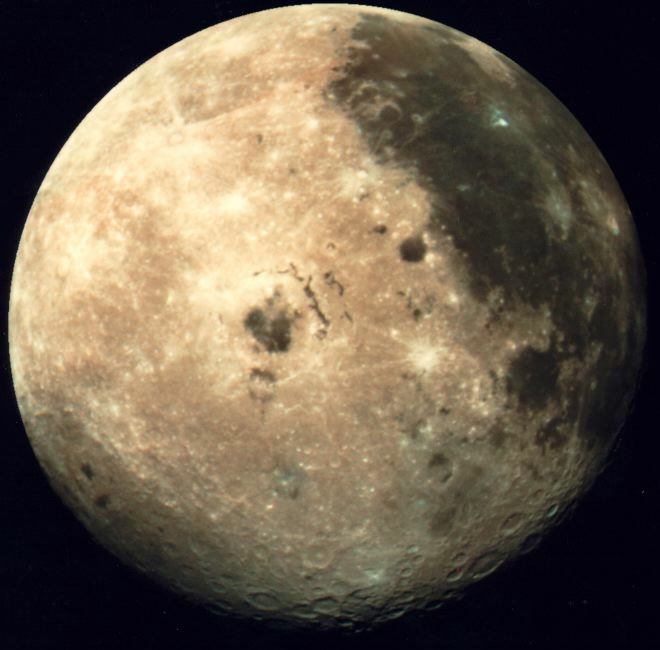 This color image of the Moon was taken by the Galileo spacecraft on Dec. 9, 1990, at 9:35 a.m. PST, at a range of about 560,000 kilometres (350,000 mi). The color composite uses monochrome images taken through violet, red, and near-infrared filters. The concentric, circular Orientale basin, 970 kilometres (600 mi) across, is near the center; the near side is to the right, the far side to the left. At the upper right is the large, dark Oceanus Procellarum; below it is the smaller Mare Humorum. These, like the small dark Mare Orientale in the center of the basin, formed over 3 billion years ago as basaltic lava flows. At the lower left, among the southern cratered highlands of the far side, is the South Pole–Aitken basin, similar to Orientale but twice as great in diameter and much older and more degraded by cratering and weathering. The cratered highlands of the near and far sides and the Maria are covered with scattered bright, young ray craters.